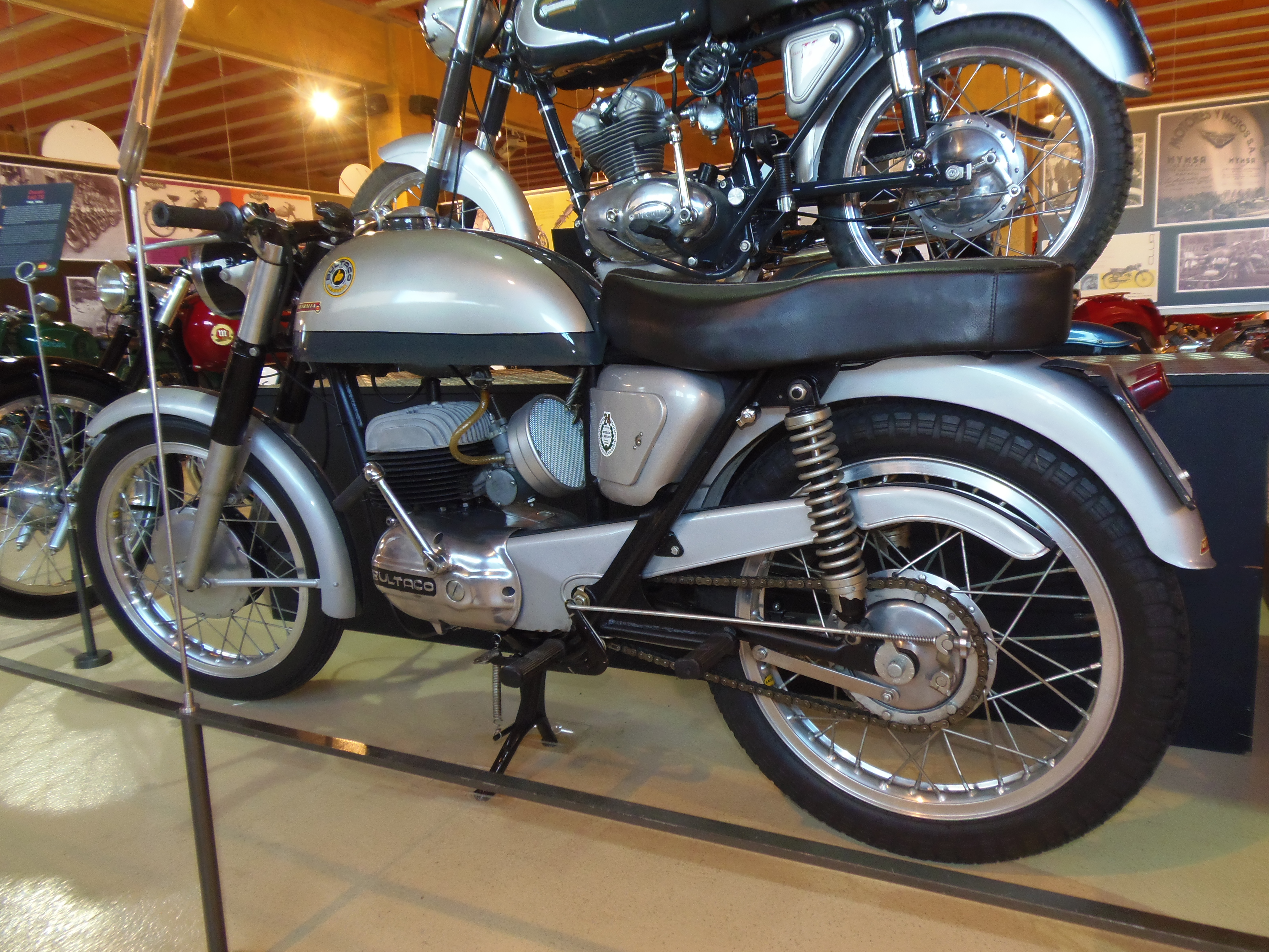 Bultaco Metralla 62, 200cc, 1962